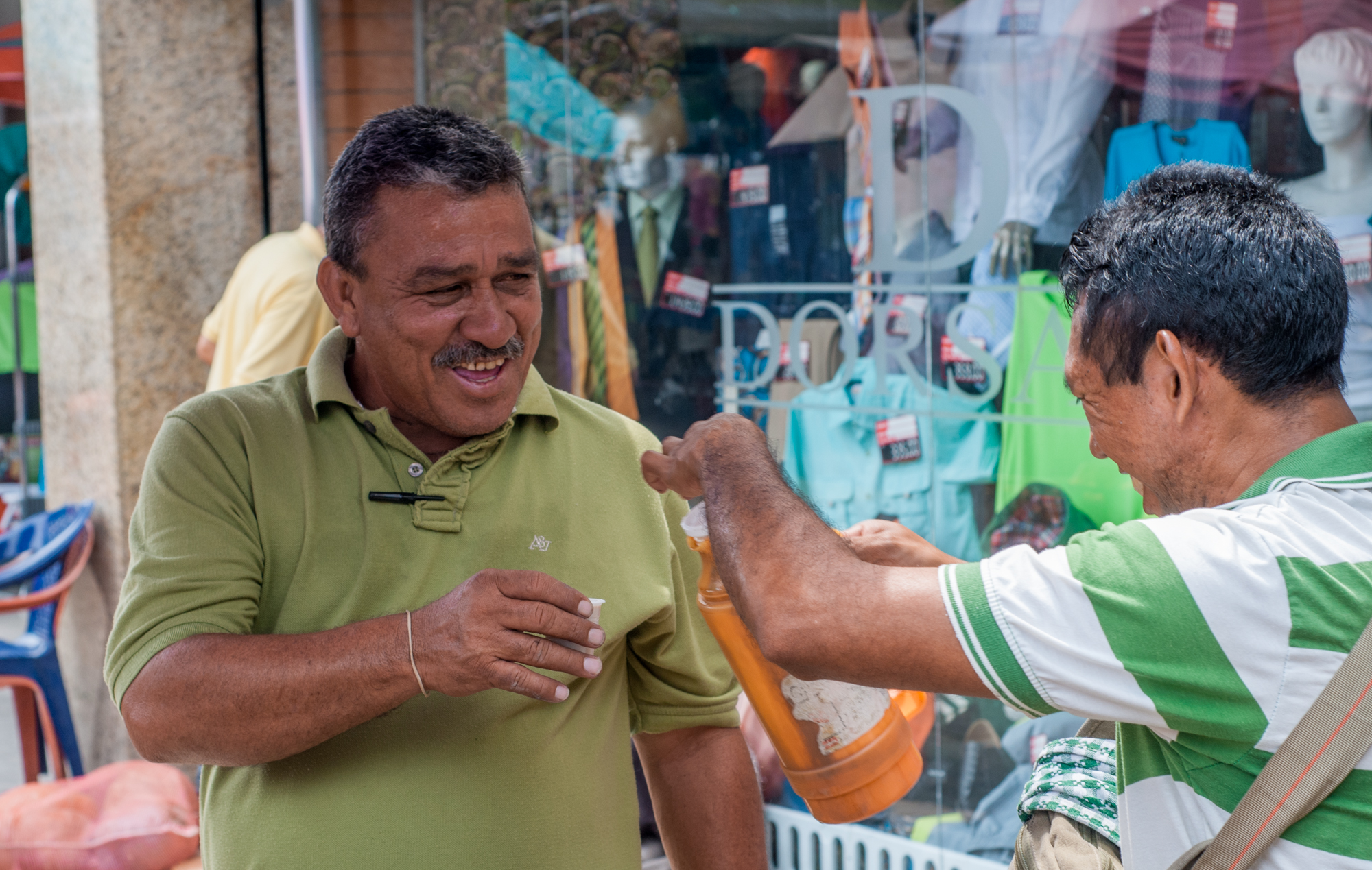 A man sharing a cup of coffee with one in the center of Maracaibo, both are vegetable sellers